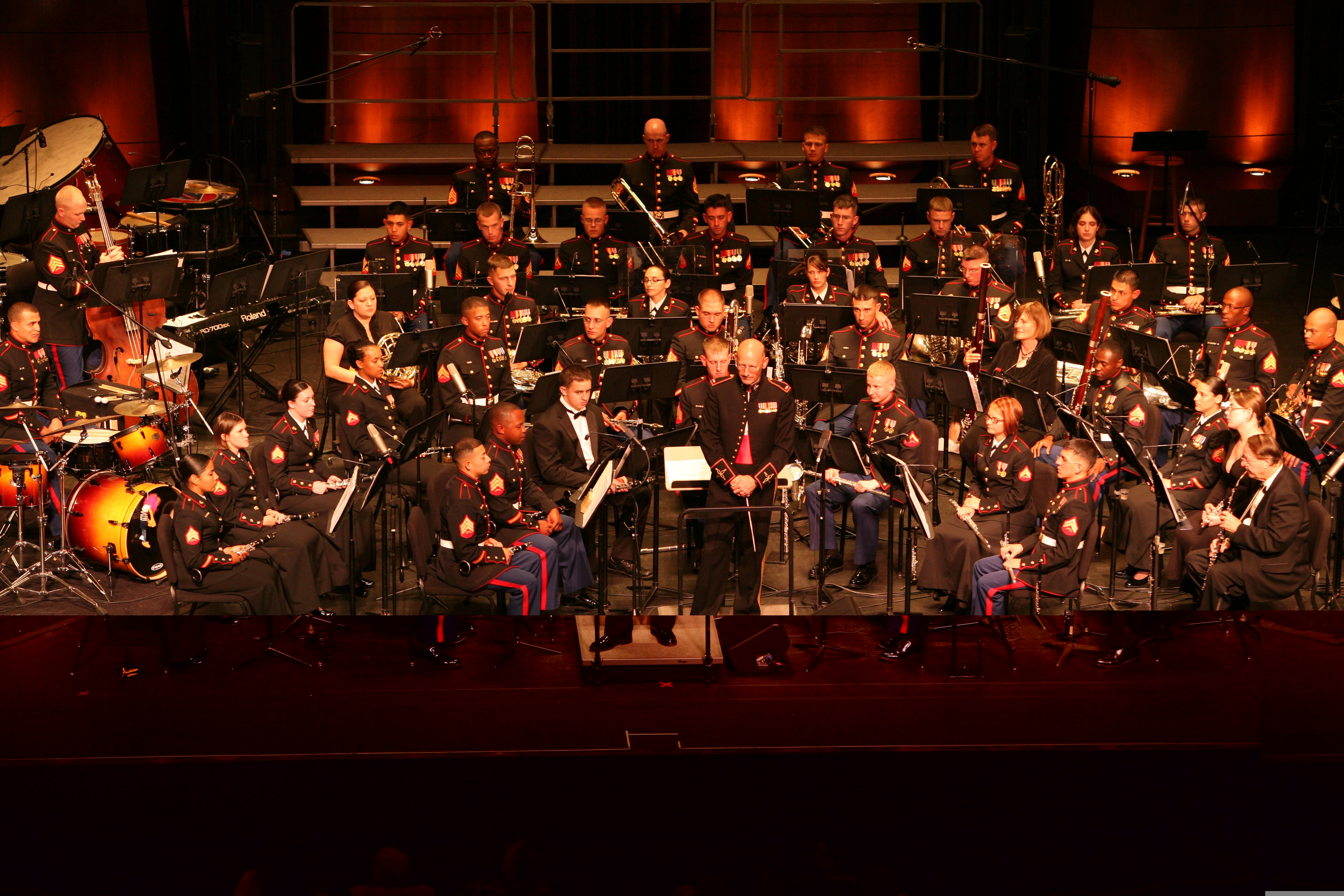 The 1st Marine Division band plays one of their many numbers at the Escondido Arts Center Concert, April 26. Some of the songs the band played during the concert were marches and patriotic themed songs like “Battle Hymn of the Republic,” and “George Washington’s Bicentennial March.”